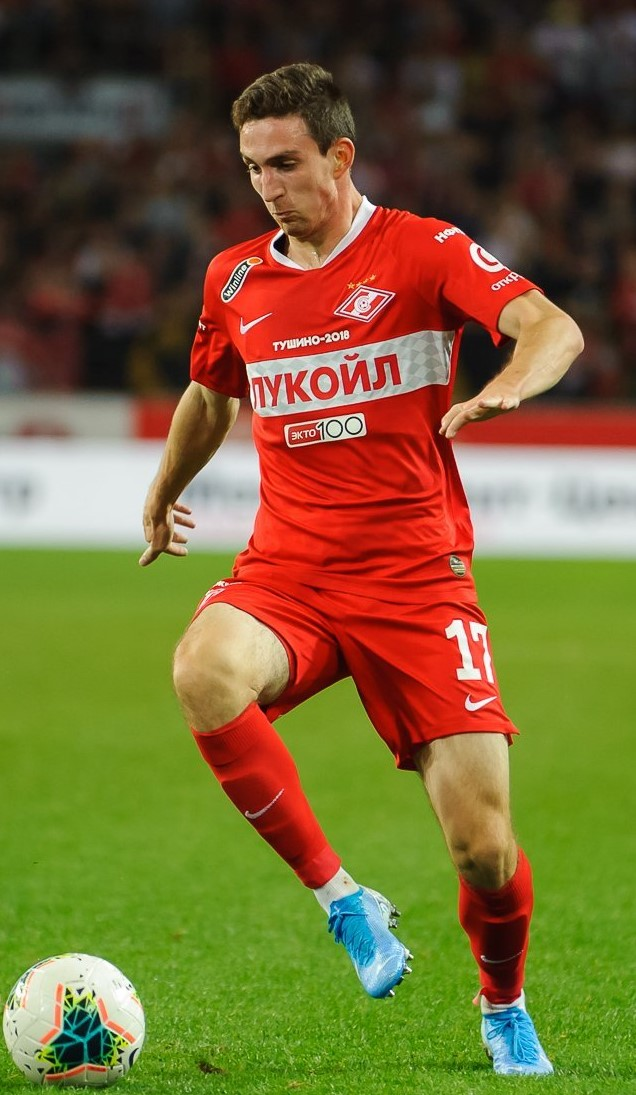 Soltmurad Bakayev with FC Spartak Moscow in a game against SC Braga